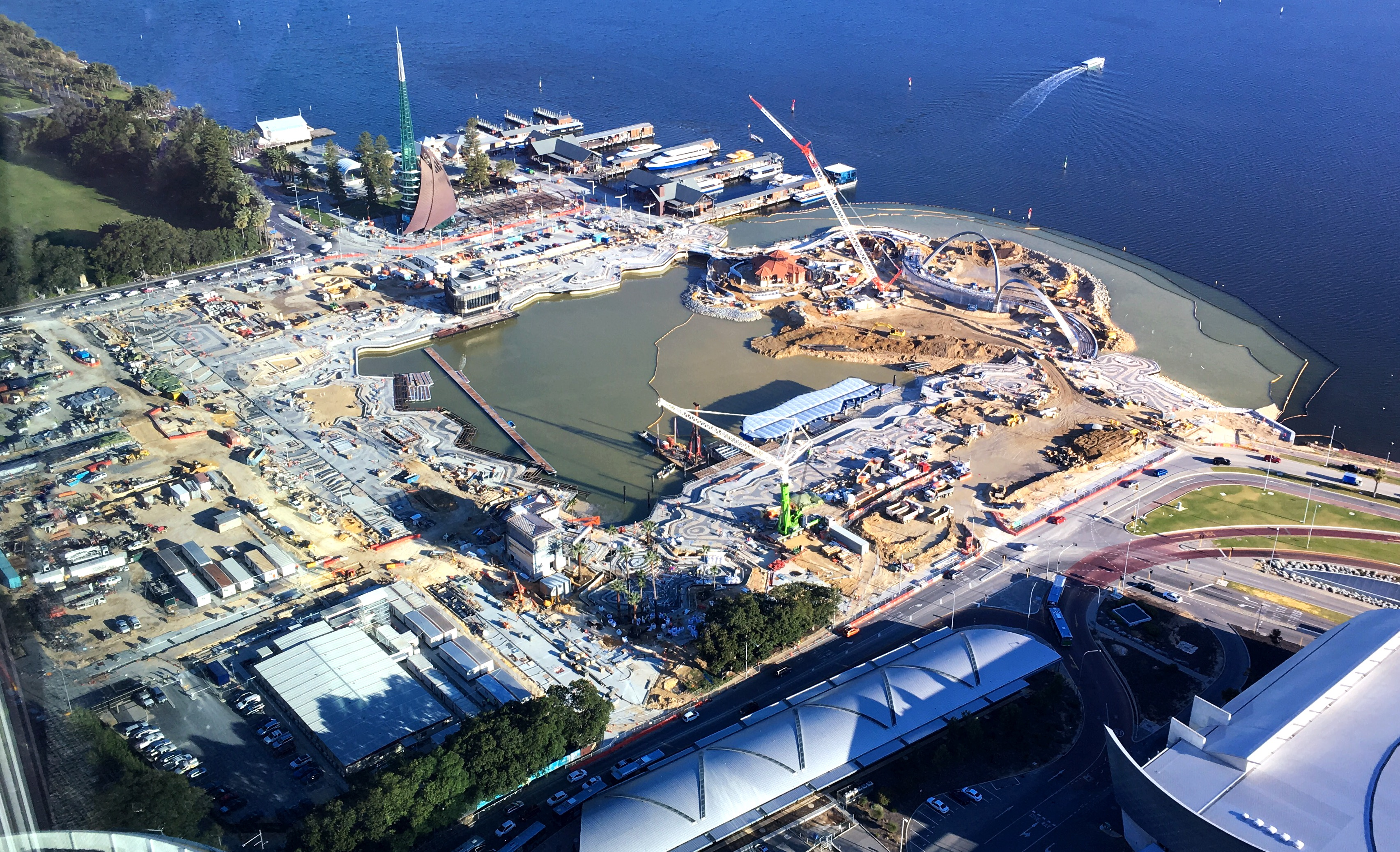 Aerial view of Elizabeth Quay Construction October 2015, Perth, Western Australia, to be used on this page: Elizabeth Quay.